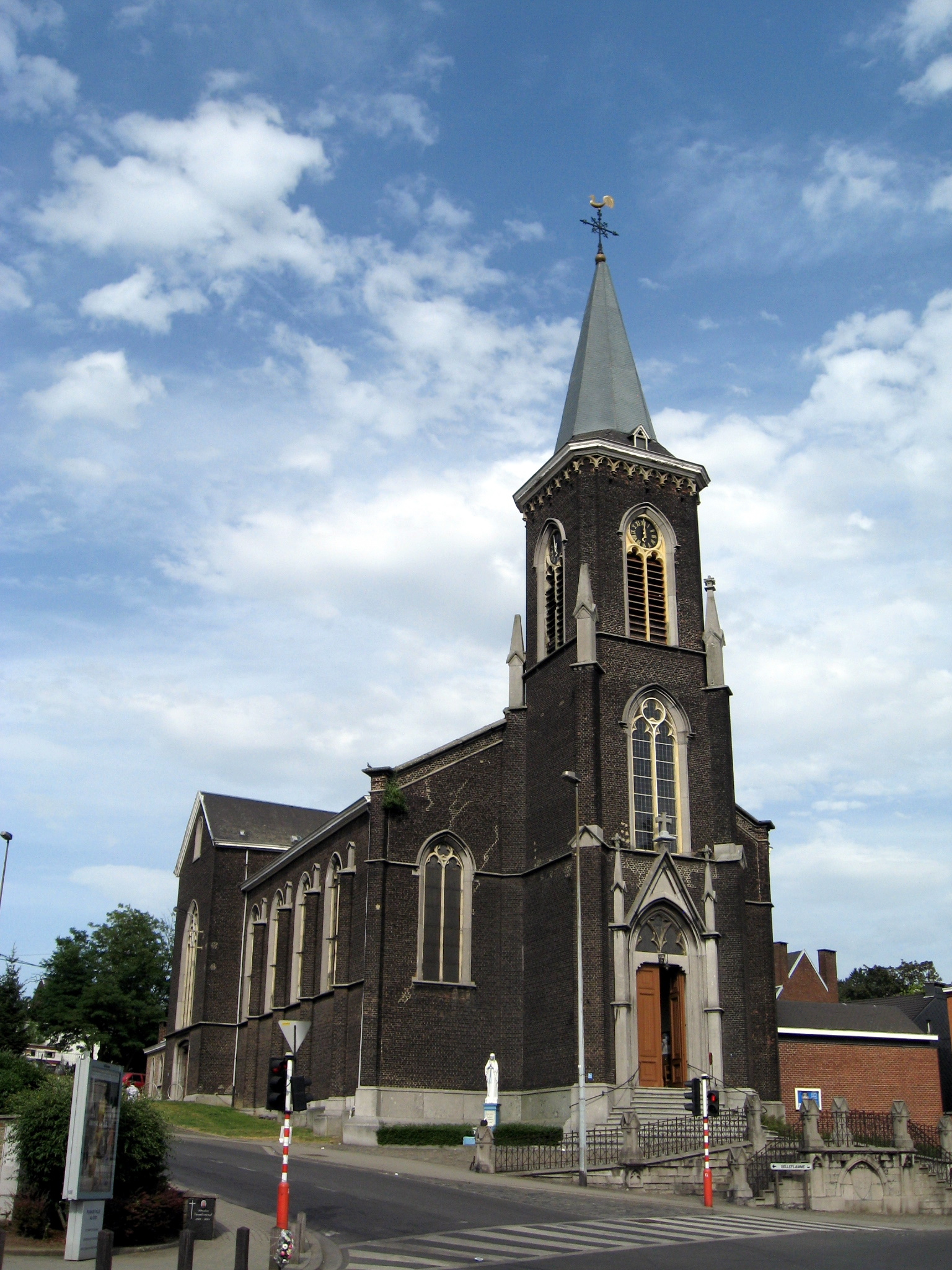 Church of the Visitation of Saint Mary in Grivegnée, Liège, Liège, Belgium